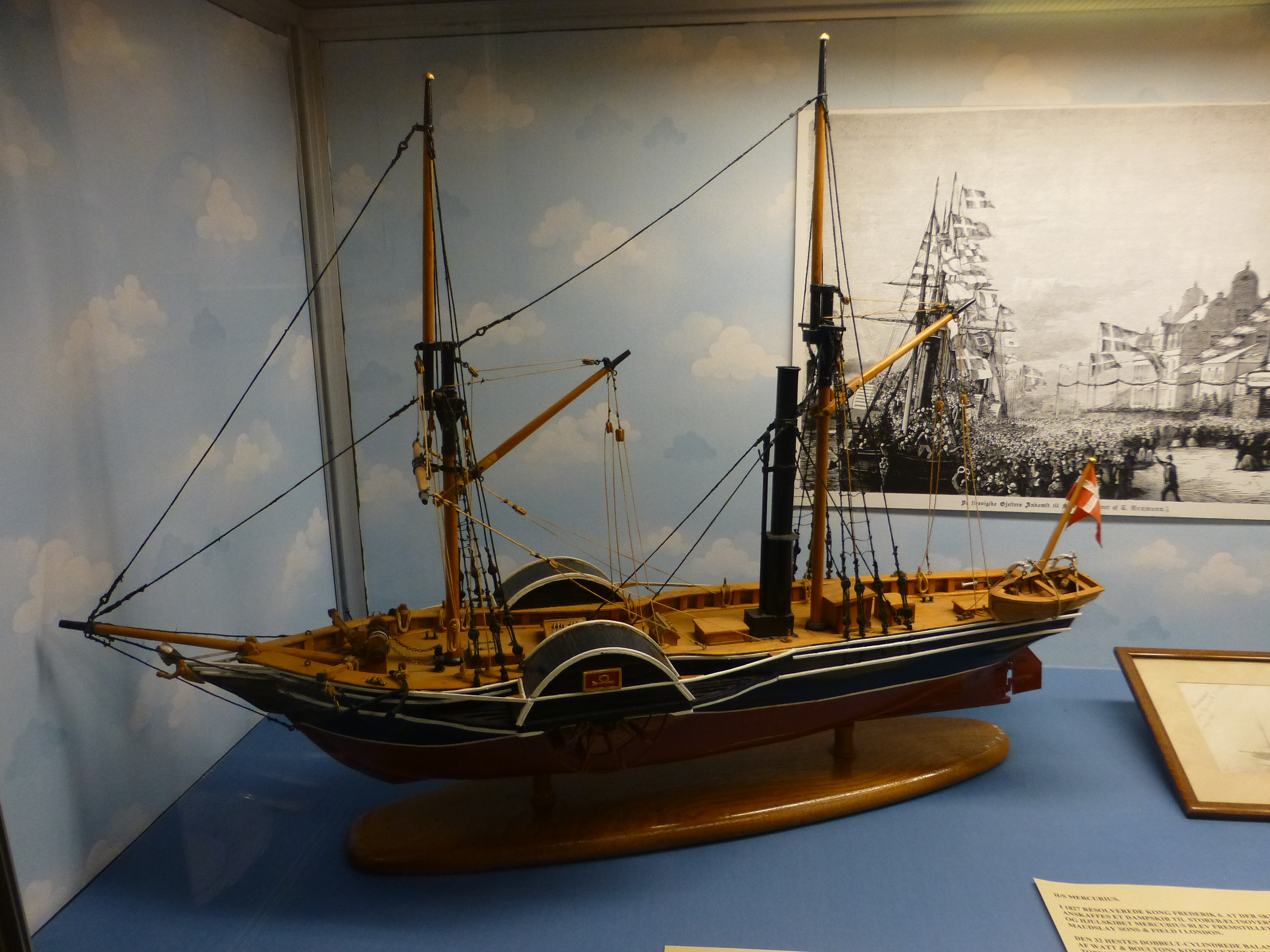 By og Overfartsmuseet in Korsør in Denmark, a museum for the town Korsør and the Great Belt Ferries. Model of the ship H/S Mercurius from 1828.